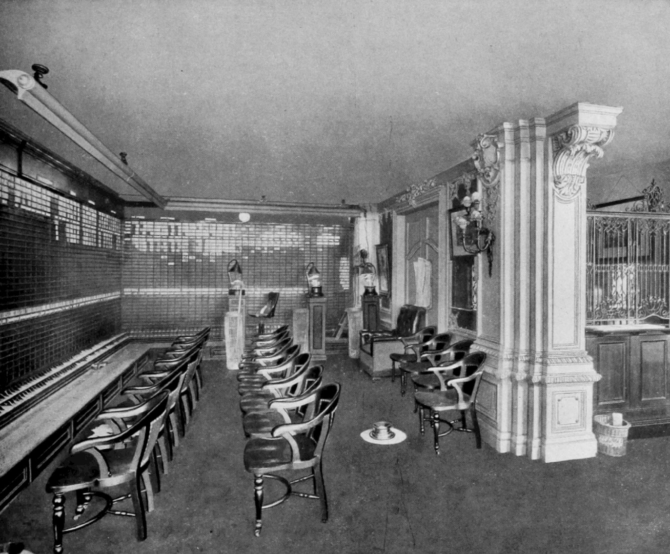 The brokerage of John W. Gates, located in the Waldorf Astoria.Waldorf Astoria William Alan Morrison, Arcadia Publishing, 2014, page 37.